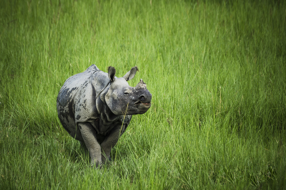 Pabitora Wildlife Sanctuary, Assam, India